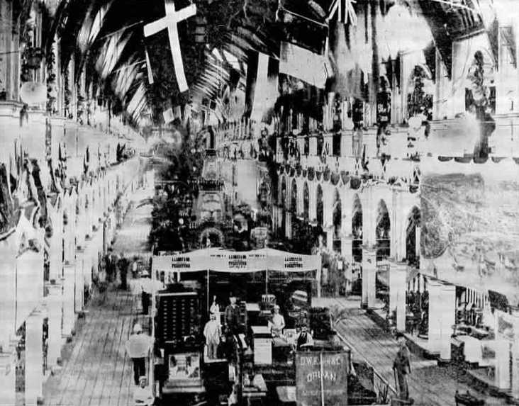 Main hall Jamaica International Exhibition.